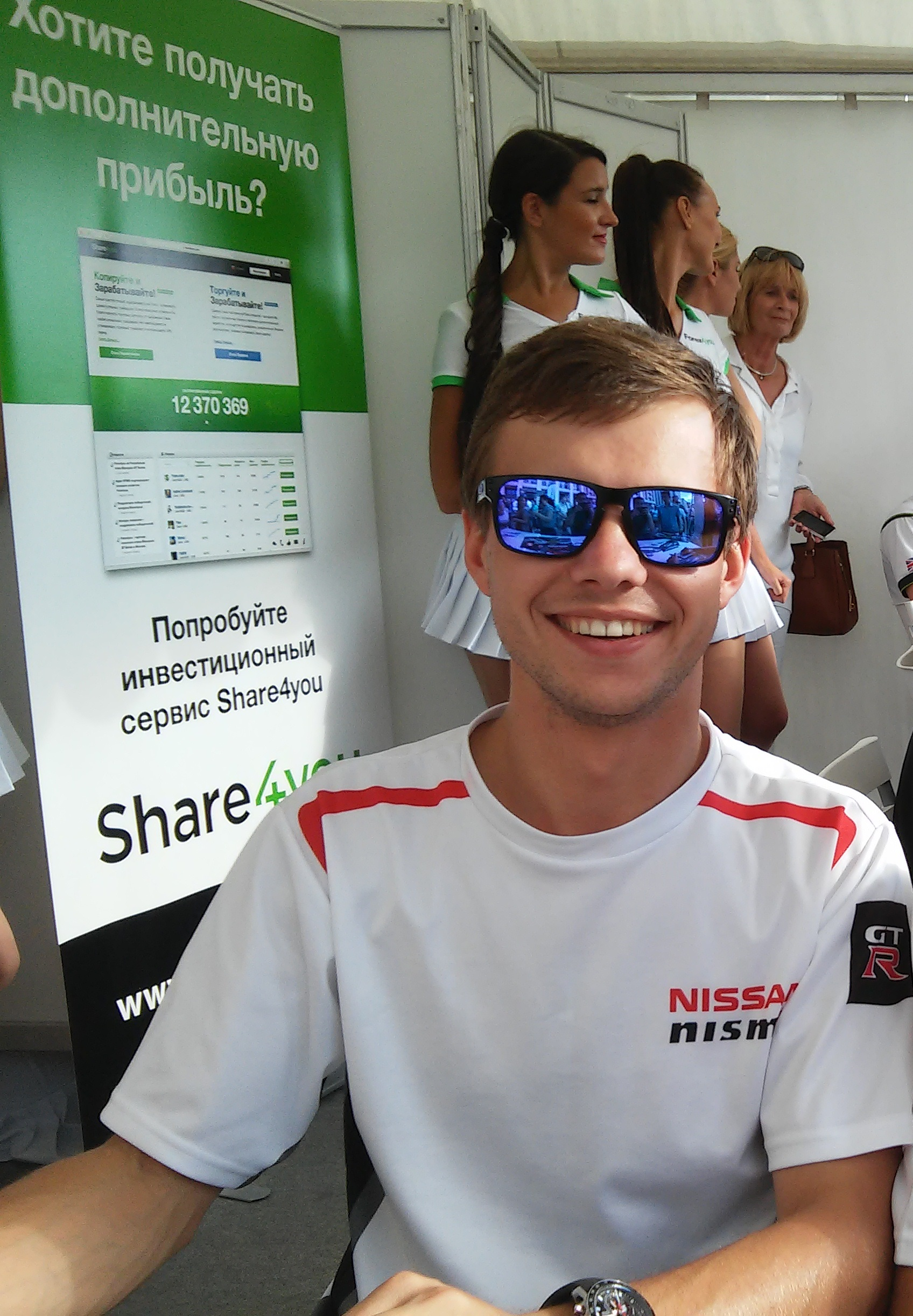 Mark Shulzhitskiy in Moscow